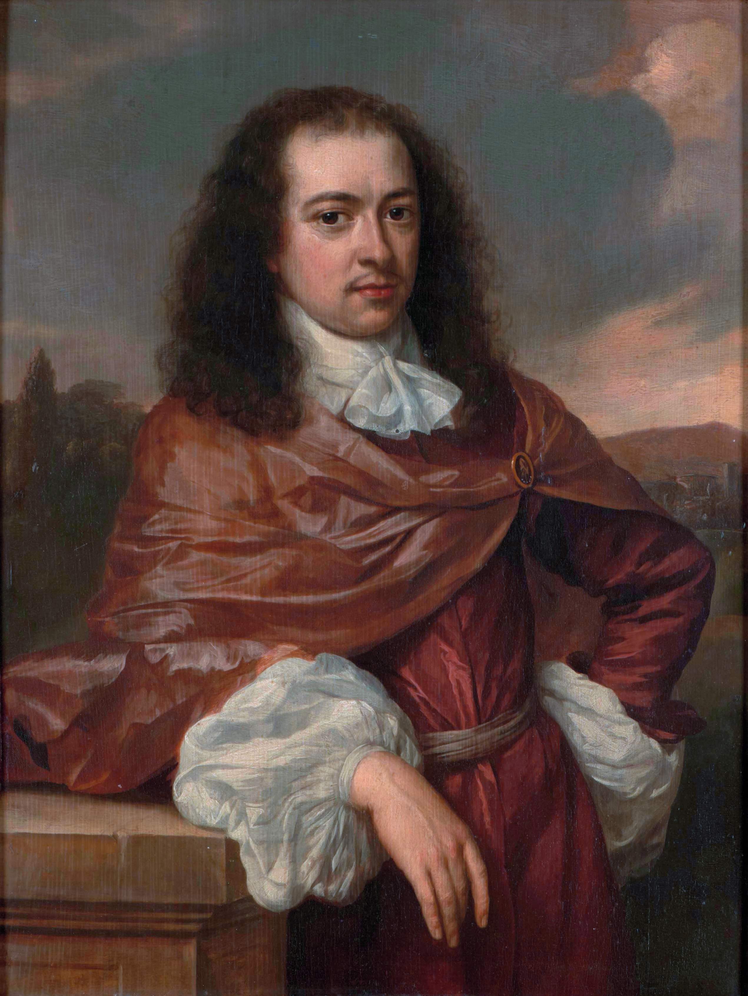 Ambassadeur Diederick van Leyden van Leeuwen oil on panel 42,9 × 32 cm ca. 1665